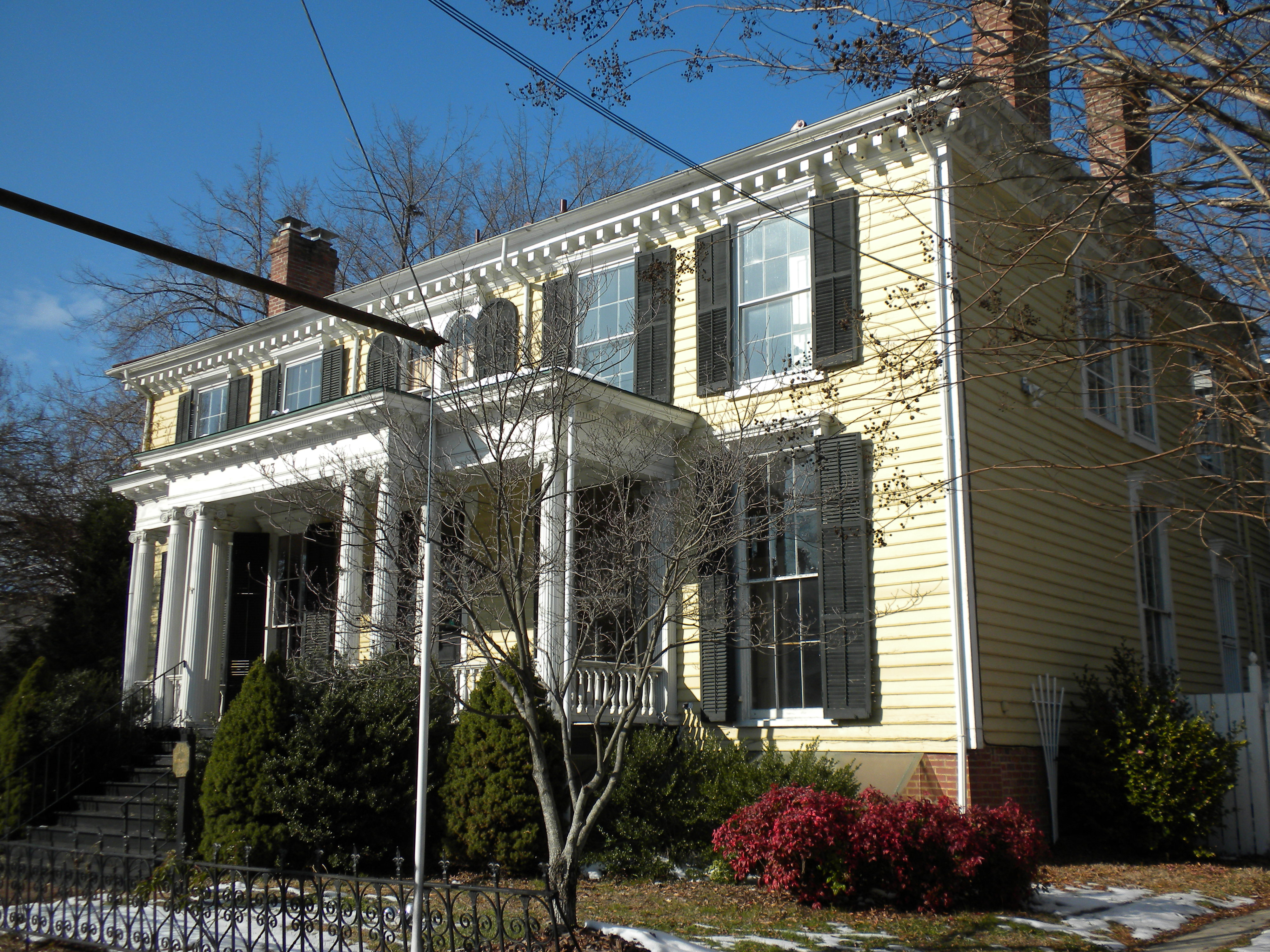 "Folly Castle" in Petersburg, Virginia. On NRHP. I donate this photo to the public domain.